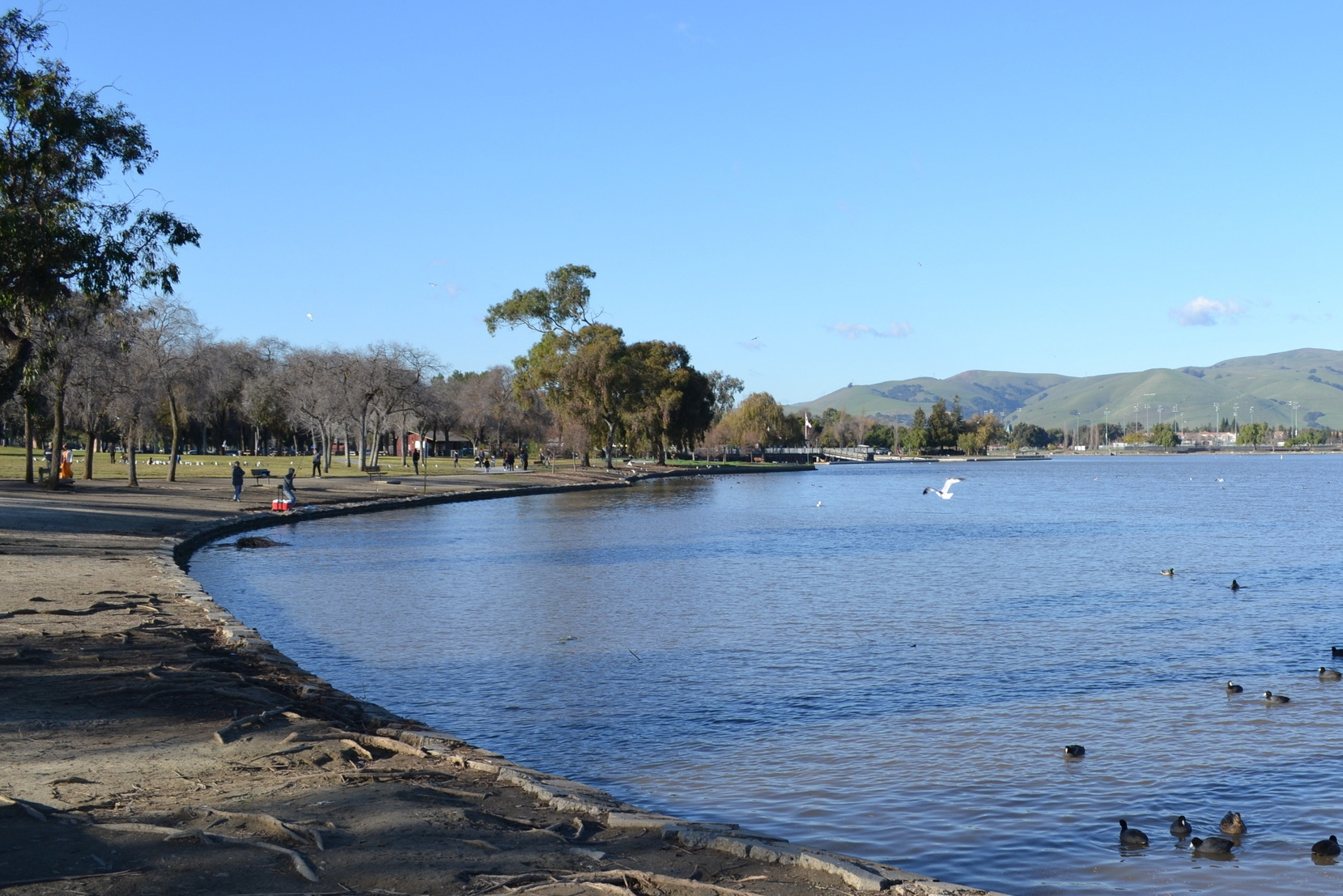 Lake Elizabeth — a pond in Fremont Central Park, Fremont, California.